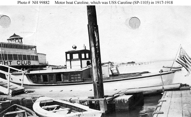 The civilian motorboat Caroline sometime prior to her service as the United States Navy patrol vessel